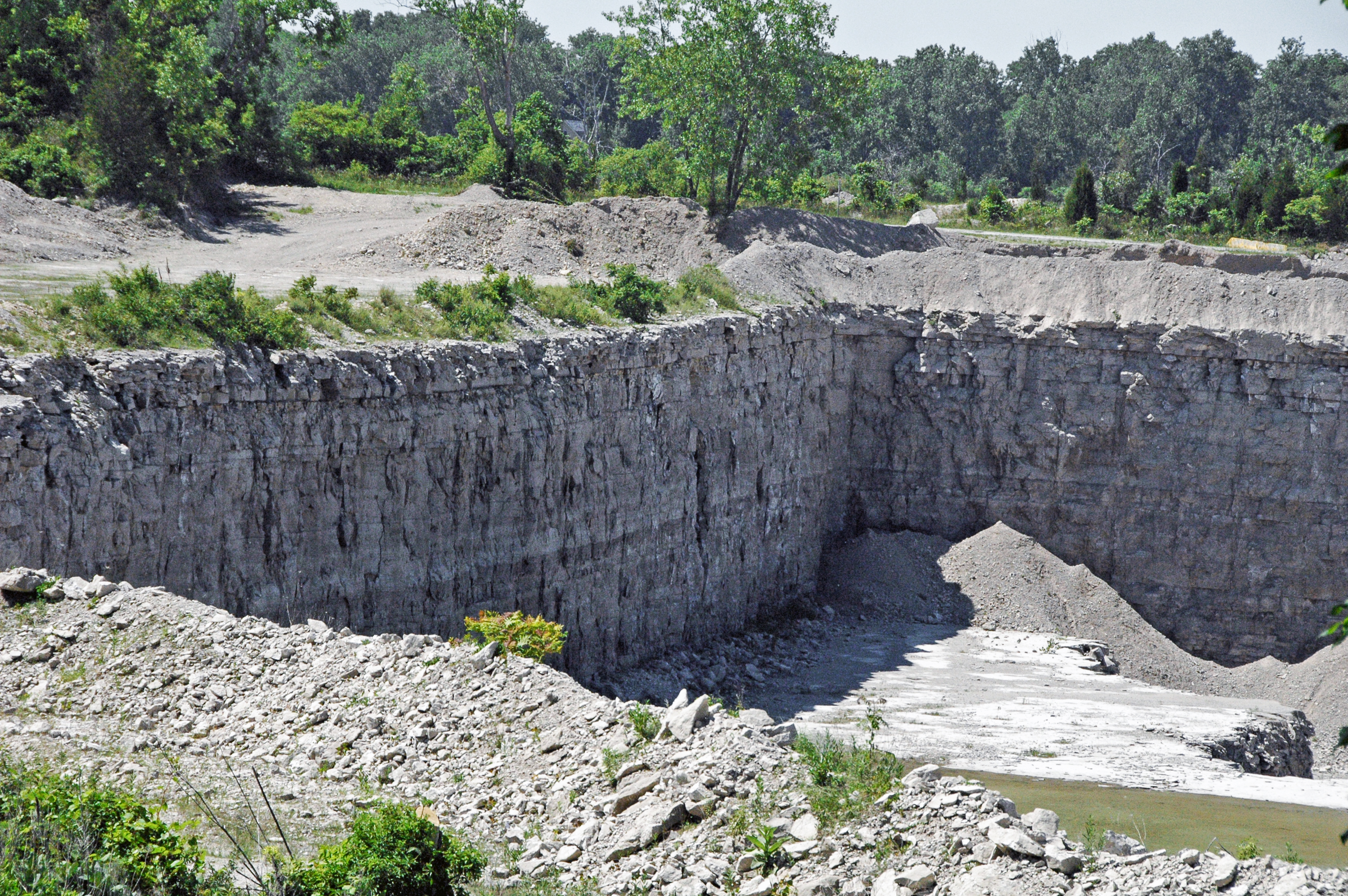 The Columbus Limestone is a significant carbonate unit in the Middle Devonian of central and northern Ohio. It's actually part of a much more widespread sheet of Devonian carbonates that extends from New York State to the Midwest. The Columbus Limestone represents deposition in a subtropical, shallow-water, carbonate platform environment. The rocks are principally micritic limestones, fossiliferous wackestones, and fossiliferous packstones. Some chert nodules are present in the unit. Fossils are typical Paleozoic shallow marine invertebrates - favositid corals, rugose corals, stromatoporoids brachiopods, crinoids, blastoids, bryozoans, trilobites, bivalves, gastropods, cephalopods, rostroconchs, and tentaculites. Microfossils include conodonts and charophyte oogonia. Other fossils in the Columbus Limestone include vertebrates (fish), land plants (rare), and trace fossils. Some fossil horizons in the Columbus Limestone are partially silicified. Seen here is the Lafarge Kelleys Island Quarry near the end of its life. The site was formerly known as the South Side Quarry and the Kellstone Quarry. It was acquired by Lafarge in 2004 and shut down in 2007 - not long after this photo was taken. The quarry is now flooded. The bedrock here consists of Columbus Limestone. Crushed rock ("aggregate") was principally used in various construction projects on the mainland. The construction business sufficiently declined in 2007 to result in the cessation of activity here. Stratigraphy: Columbus Limestone, Eifelian Stage, lower Middle Devonian Locality: Lafarge Kelleys Island Quarry (also known as the Kellstone Quarry and the South Side Quarry), western Kelleys Island, western Lake Erie, far-northern Ohio, USA (41° 36' 13.40" North latitude, 82° 43' 25.51" West longitude)